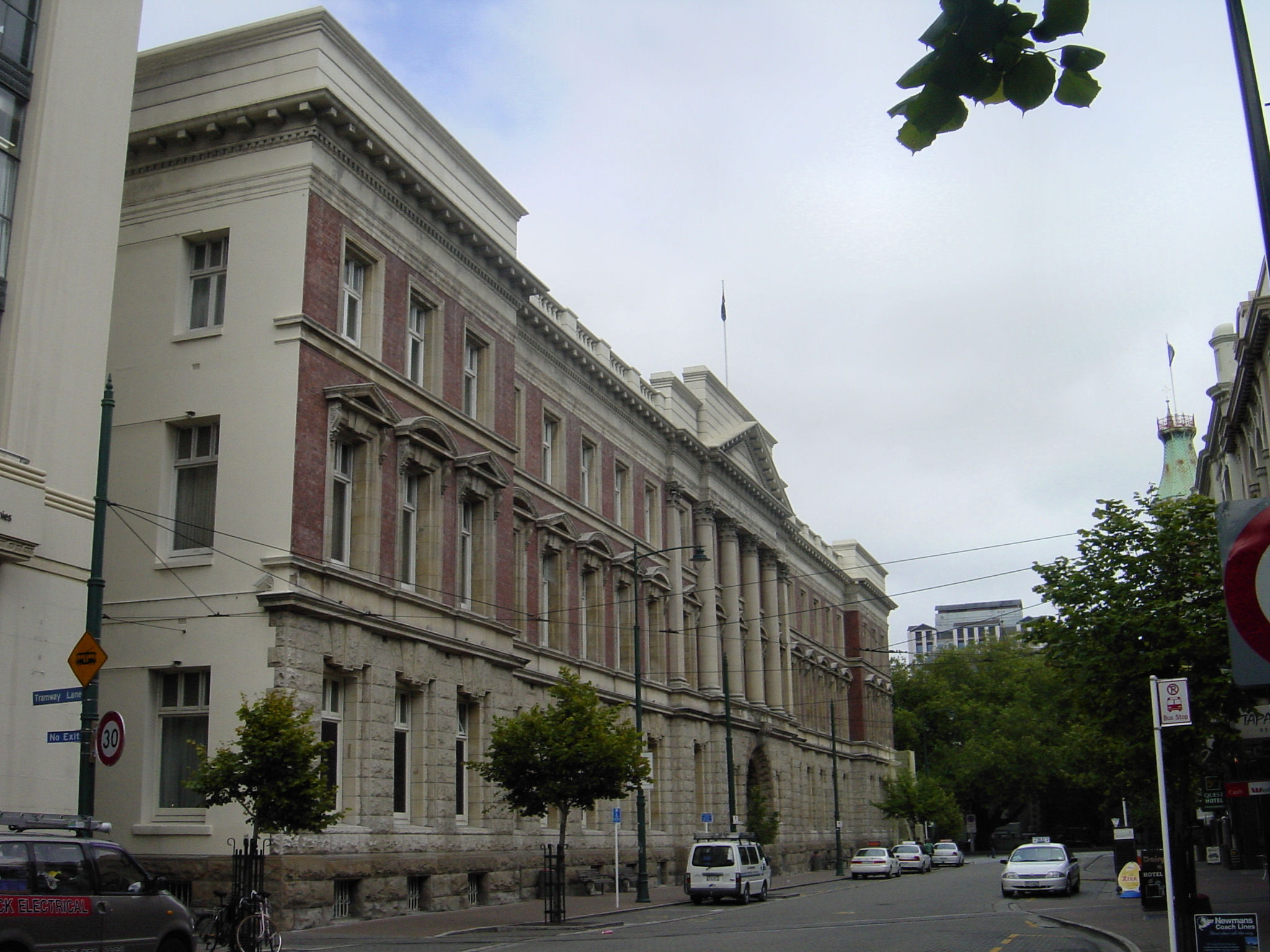 See a 1913 photo of the building here.